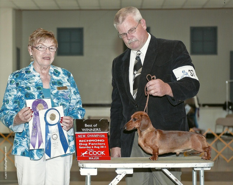 Ranger, AKA Sandar's Southern Voice being awarded his Champion title.